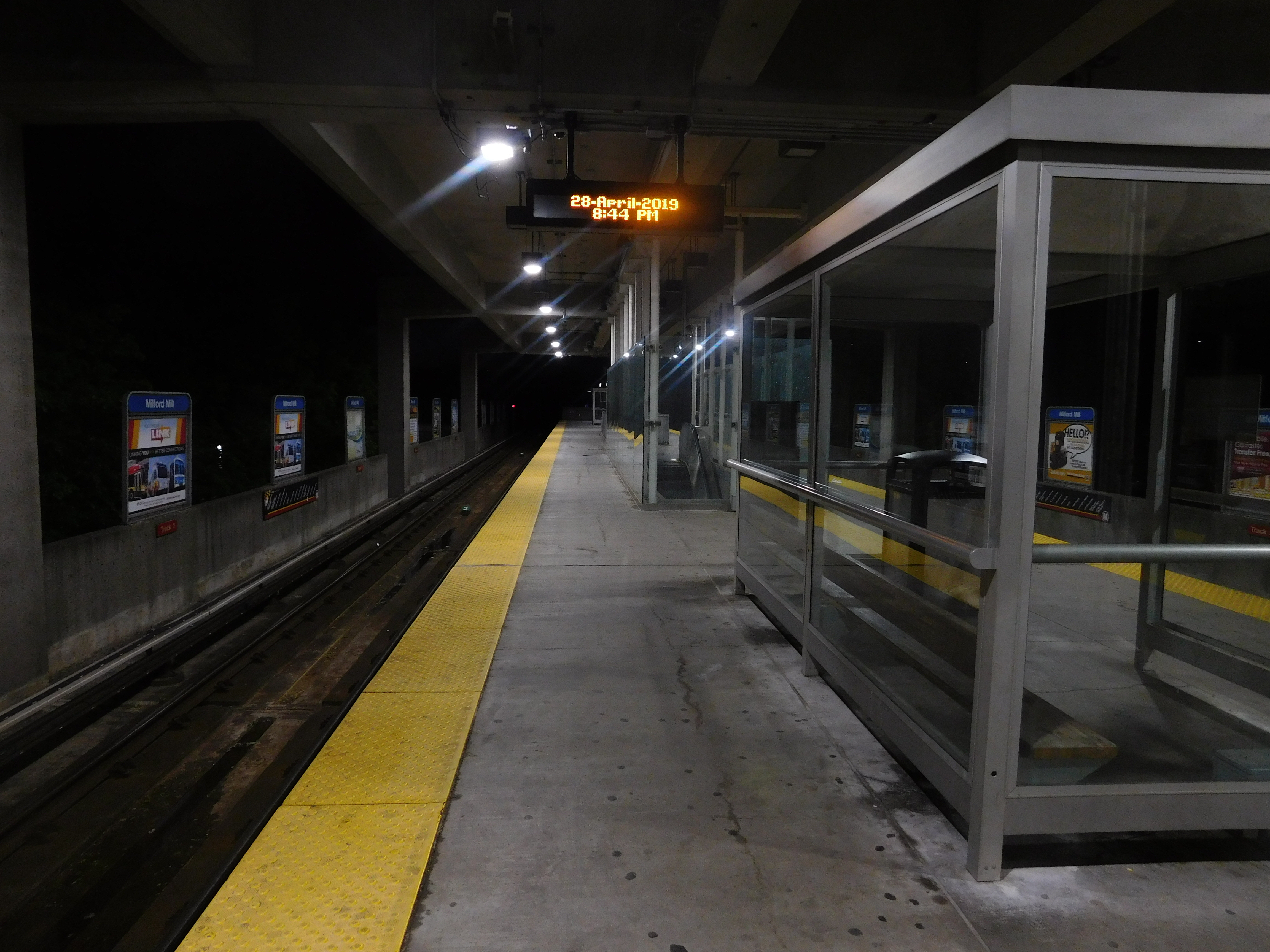 Milford Mill station of the Baltimore Metro in April 2019.